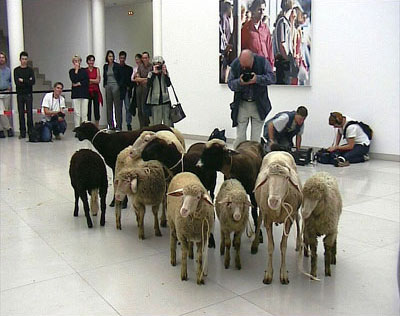 Julia Kissina, Performance in Museum of Modern Art in Frankfurt/ Main, 2000